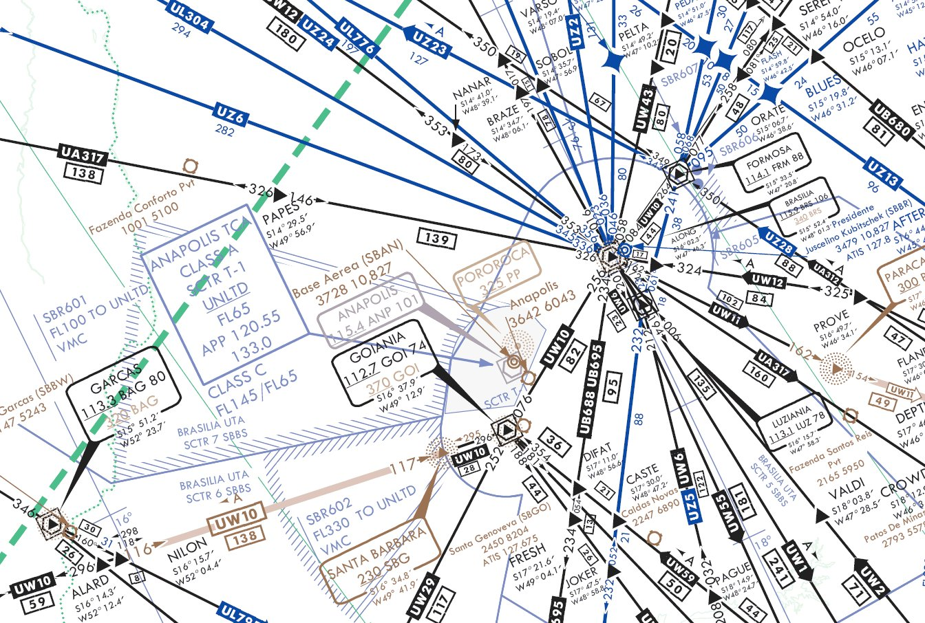 Extract (via PhotoShopPro) from DOD FLIGHT INFORMATION PUBLICATION ENROUTE HIGH ALTITUDE CARIBBEAN AND SOUTH AMERICA